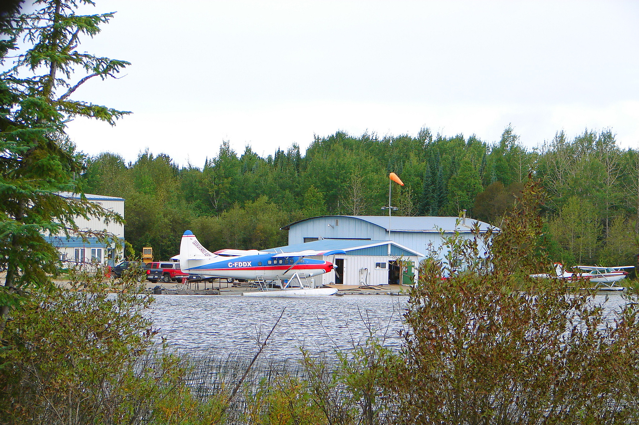 Hearst Air/Carey Lake Water Aerodrome, west of Hearst, Ontario, Canada